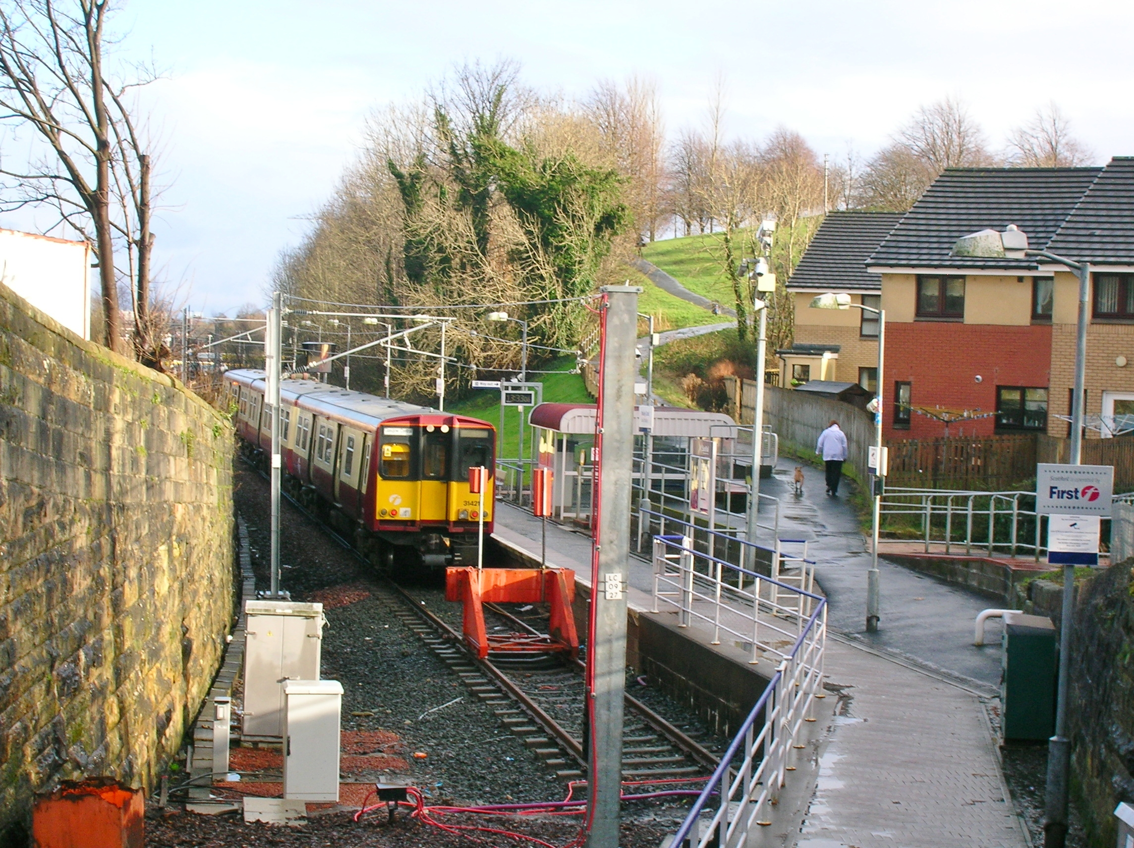 Paisley Canal railway station in 2013 just after electrification. Renfrewshire, Scotland.